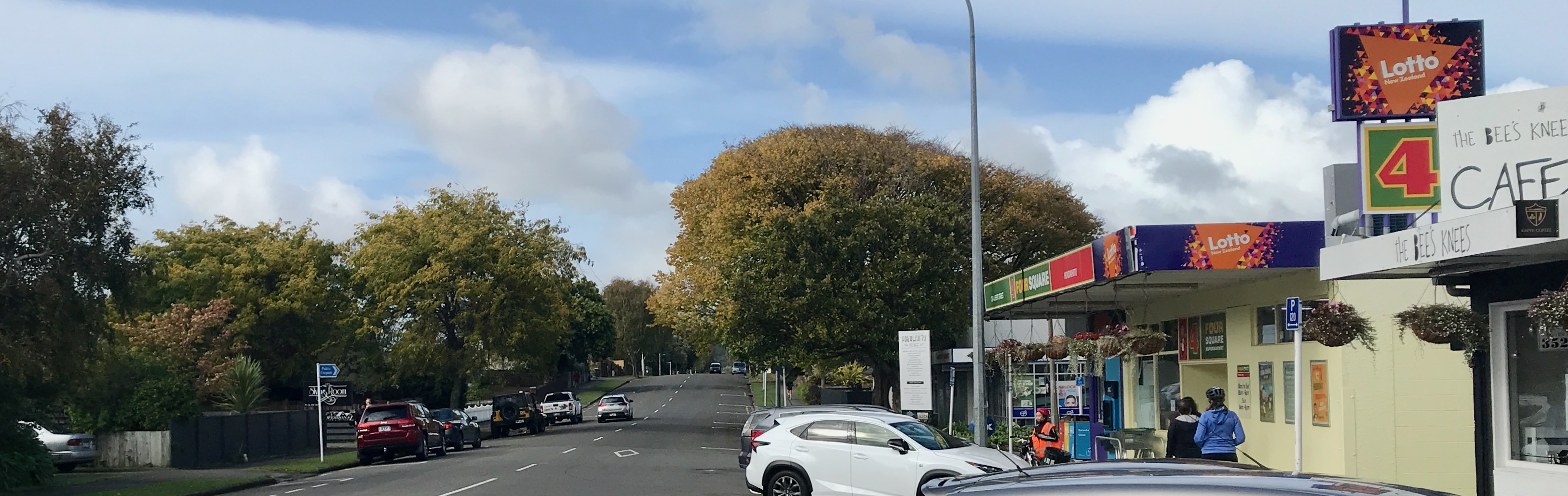 Street scene in Hokowhitu, Palmerston North, New Zealand